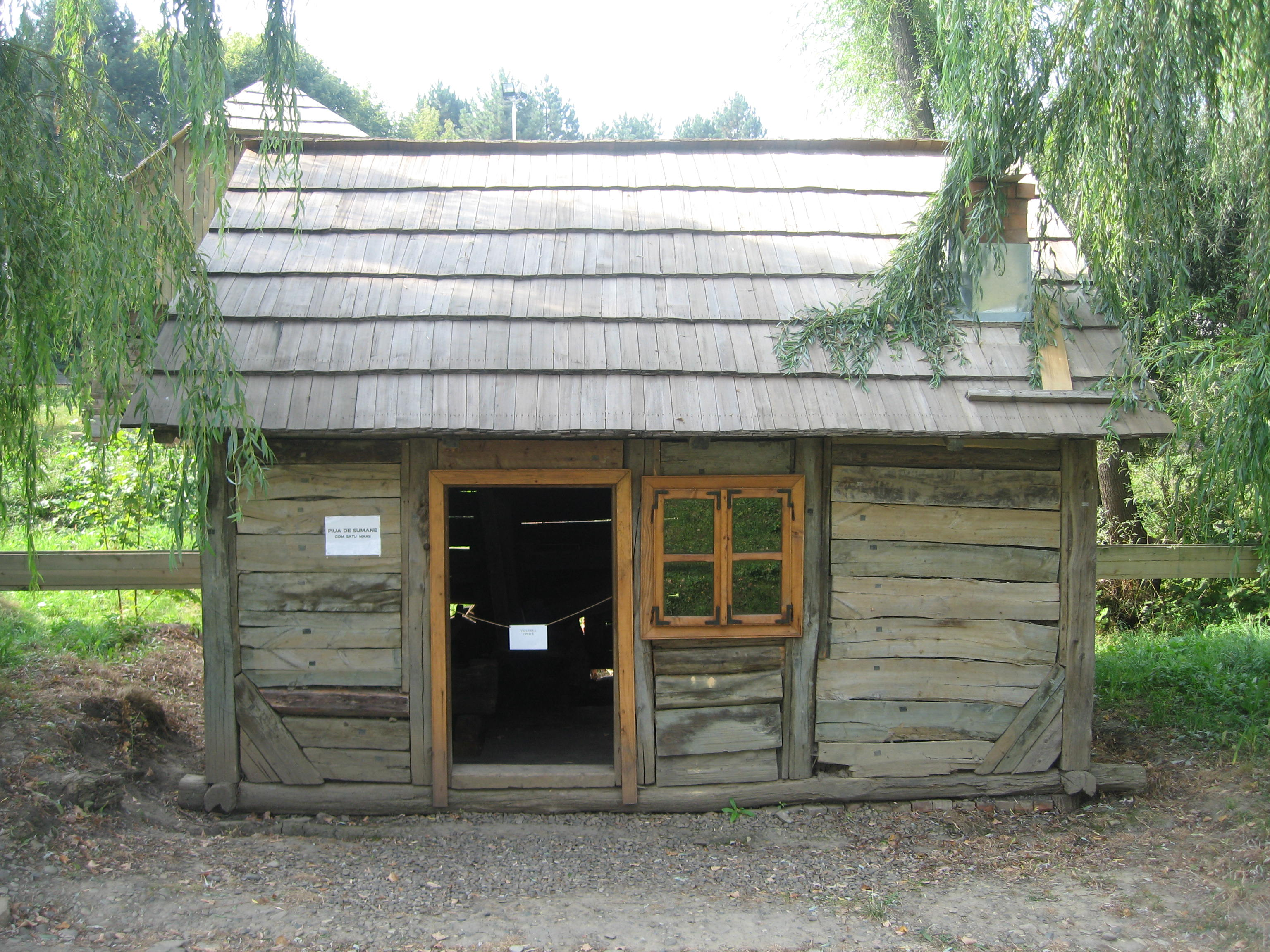 Bukovina Village Museum - Traditional thick long coats workshop from Satu Mare.